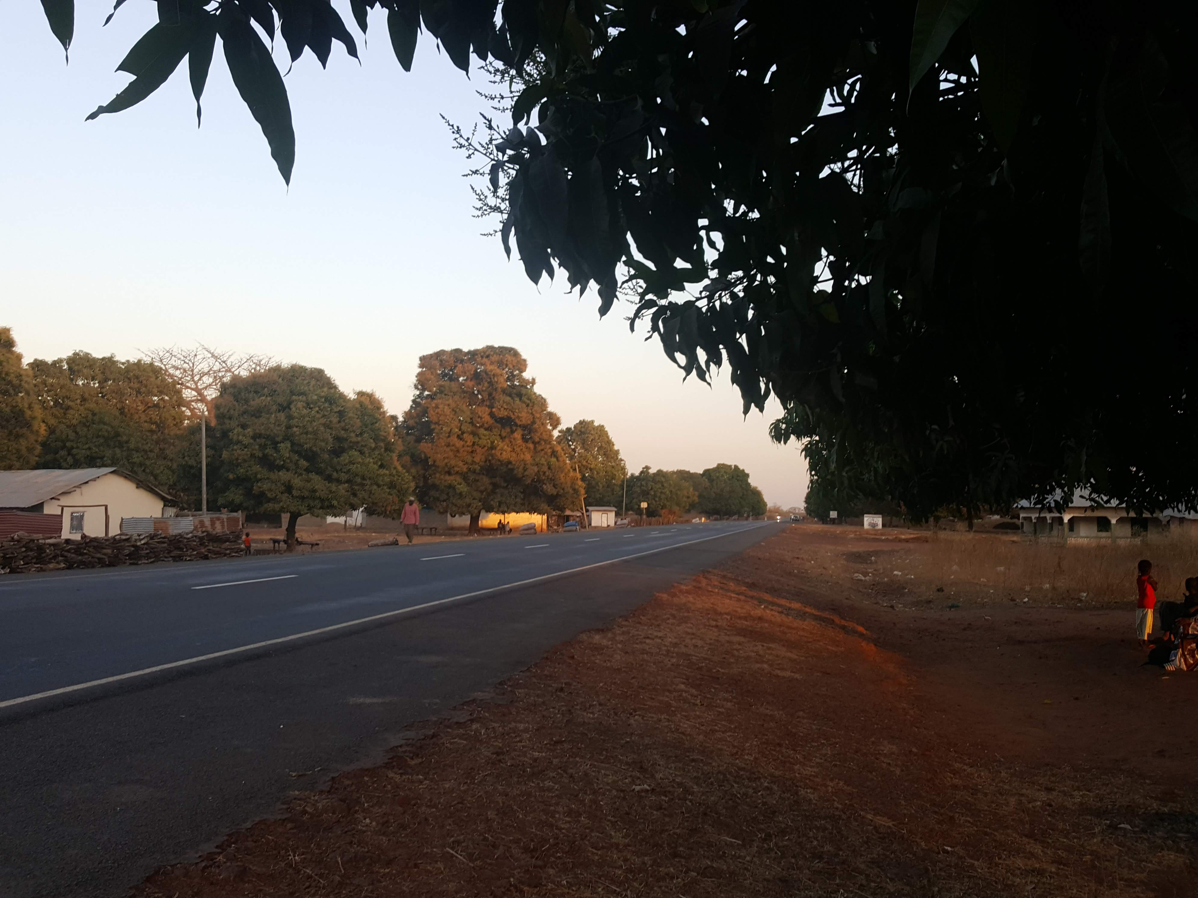 The Trans-Gambia Highway at Nema Kuta, Lower River Division, Gambia. Facing eastward, towards Soma.